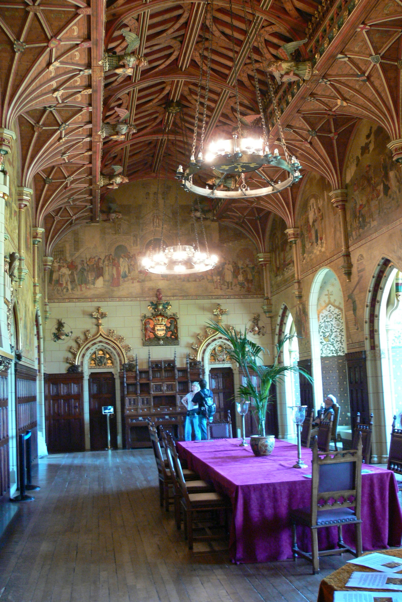 Cardiff Castle ( Wales ). Castle apartments: Banqueting hall ( 1873 ).